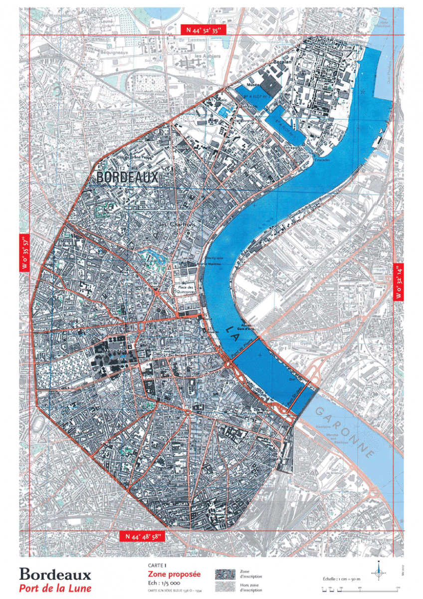 Bordeaux Port of the Moon, UNESCO aera.